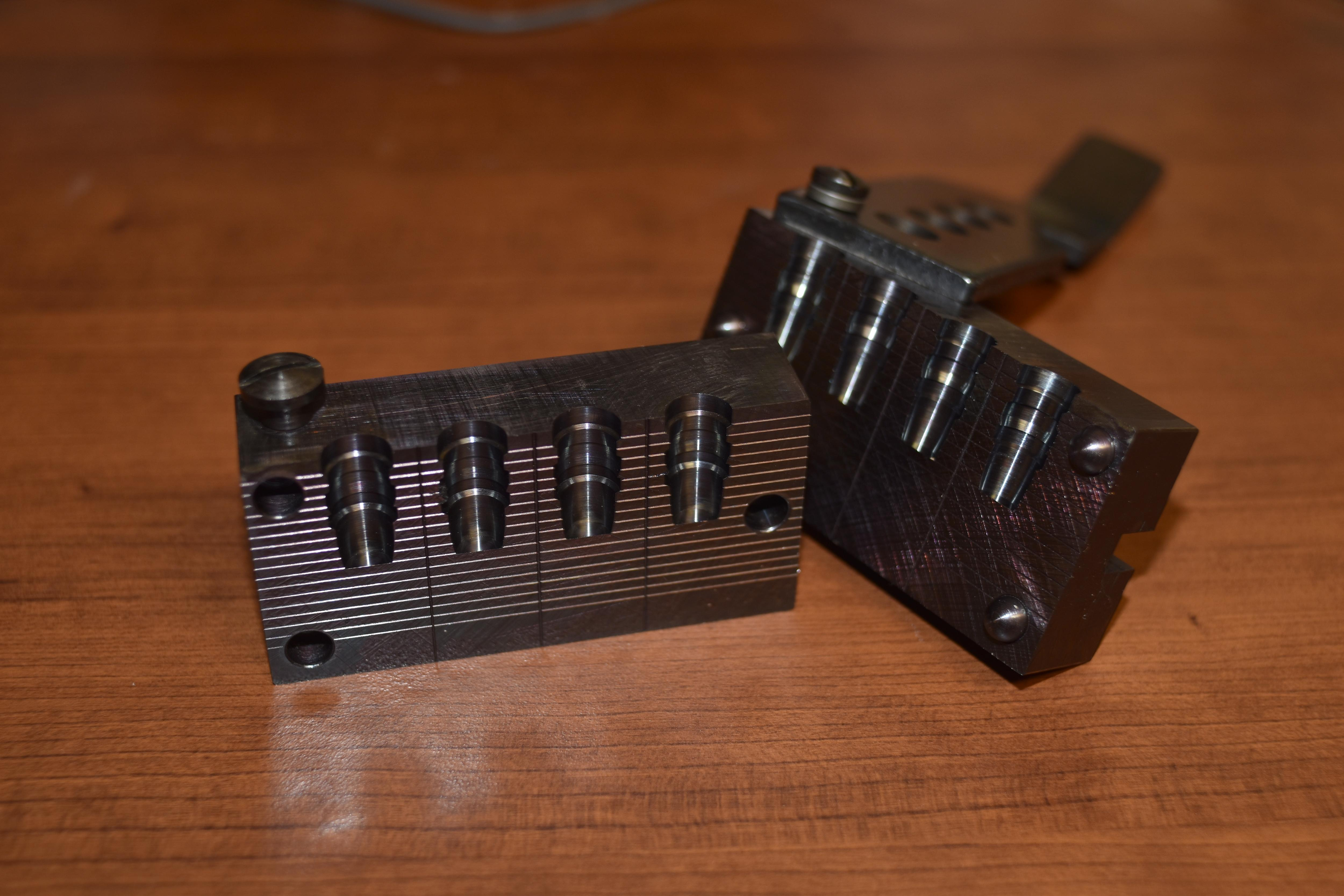 A four-cavity Lyman model 358429 leaded-steel mold for casting 170 grain Elmer Keith semiwadcutter bullets.